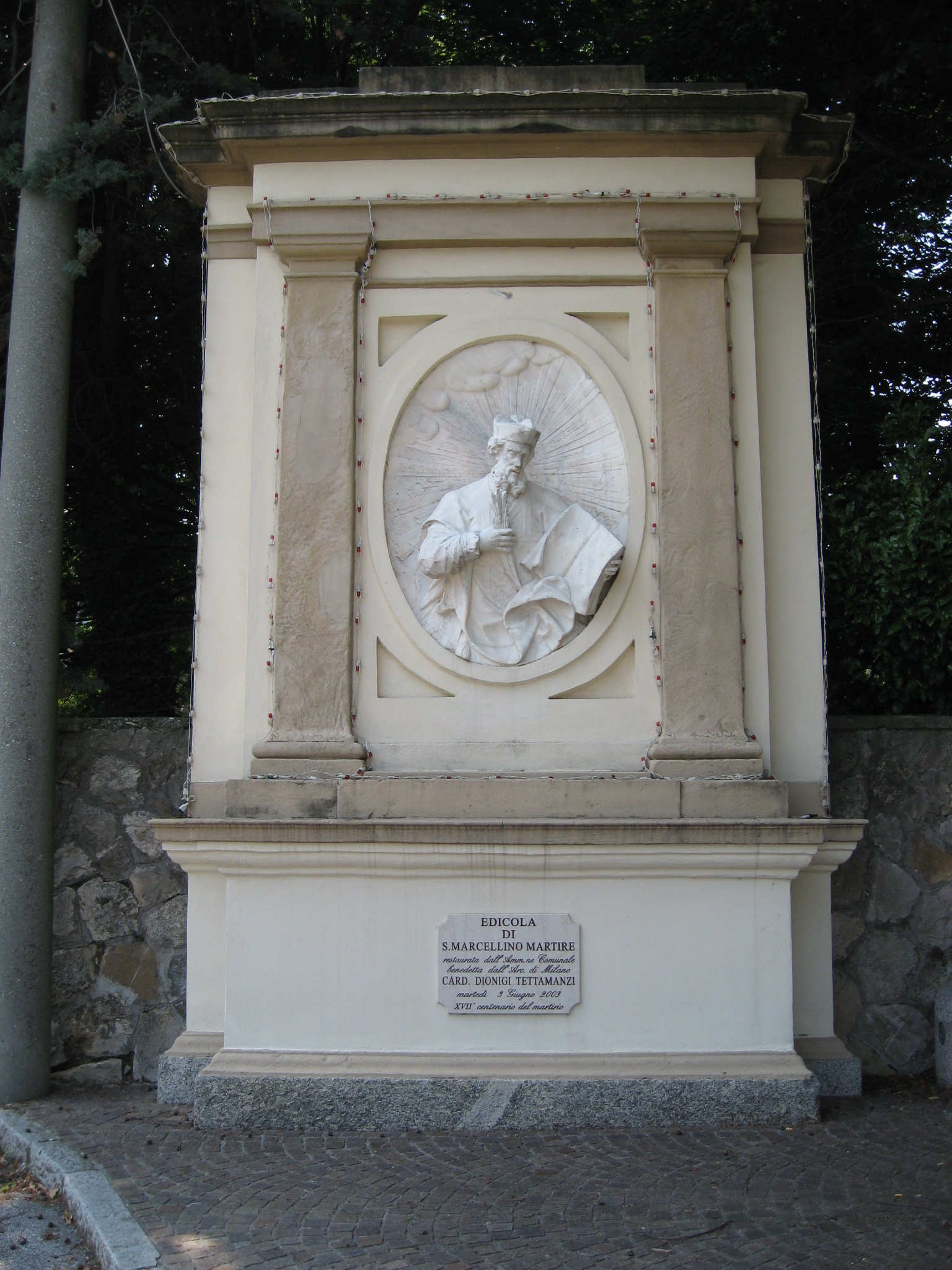 Aedicula of the "Chiesa dei Santi Marcellino e Pietro" in Imbersago, Italy